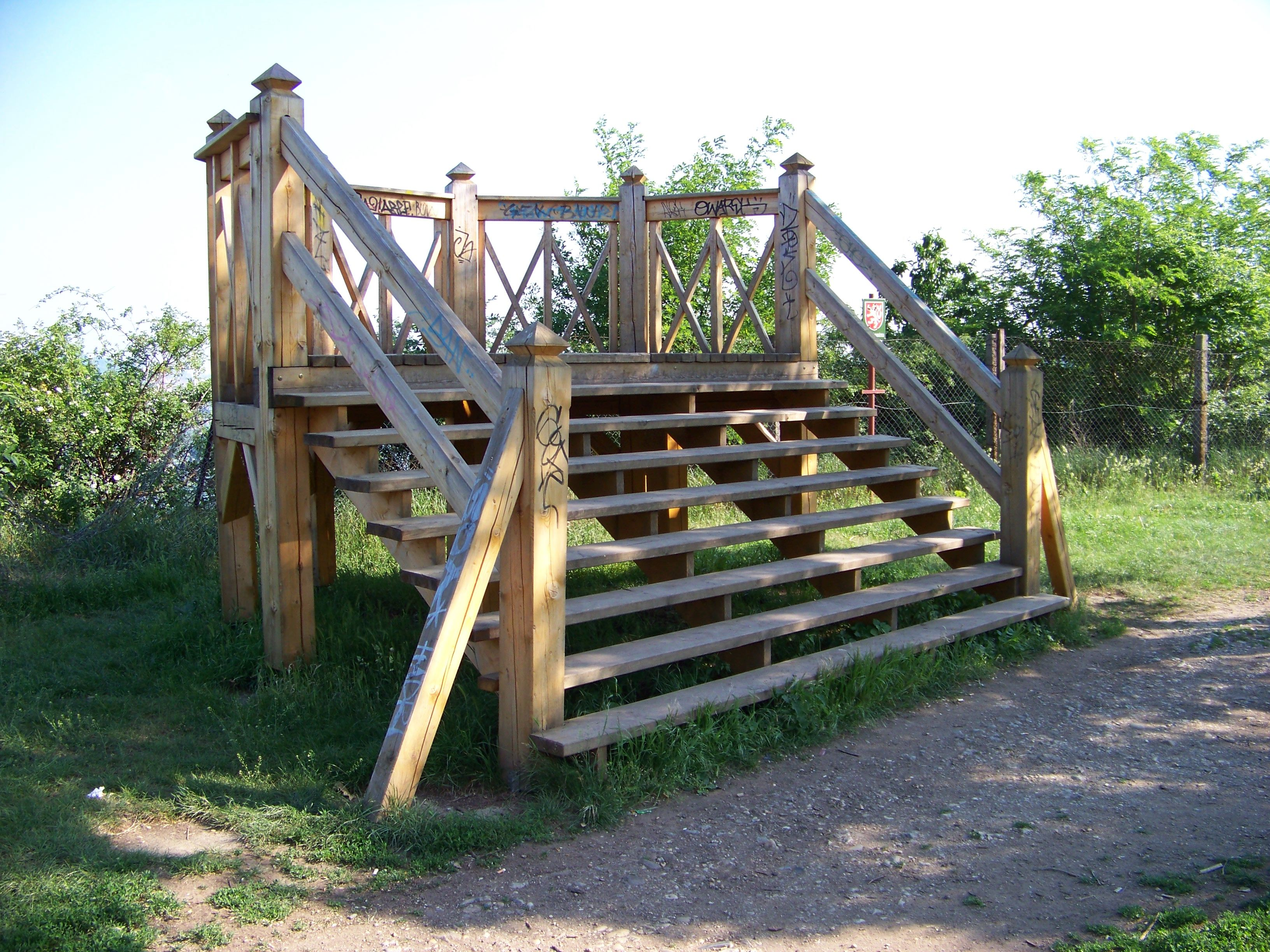 Prague-Braník, the Czech Republic. Observation platform at Dobeška hill. - OpenStreetMap(Info)